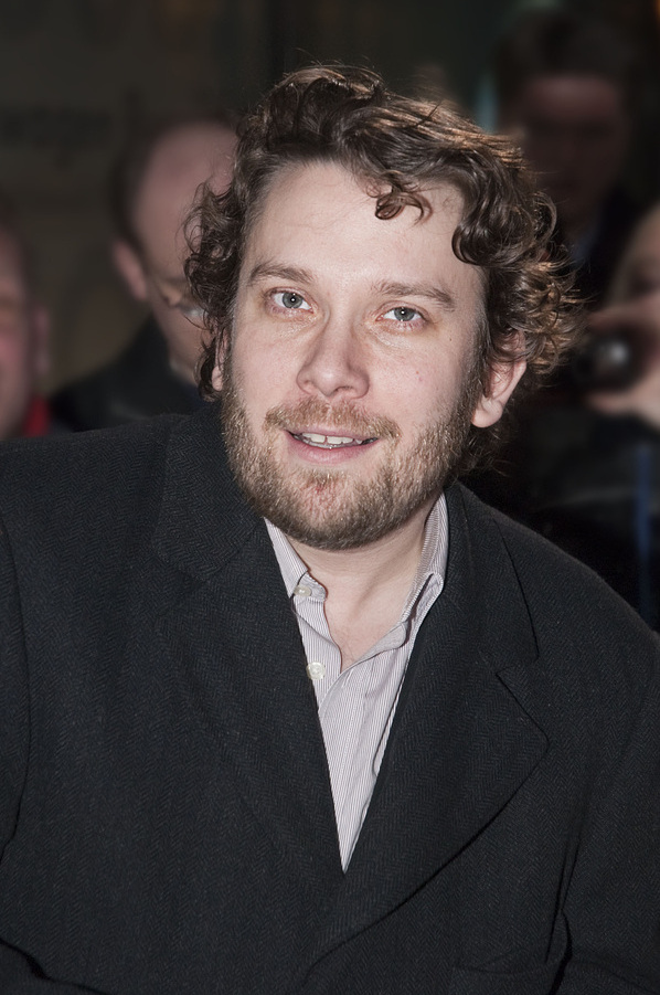 Christian Ulmen, German actor. Volkswagen People’s Night 2008